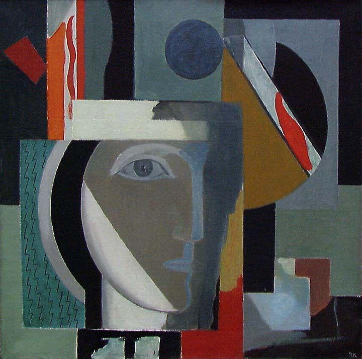 Ragnhild Kaarbø - Komposisjon med hode, 1925